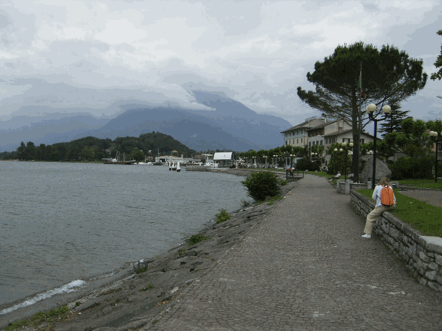 Colico seen from the promenade along the seaside of Lake Como, Italy